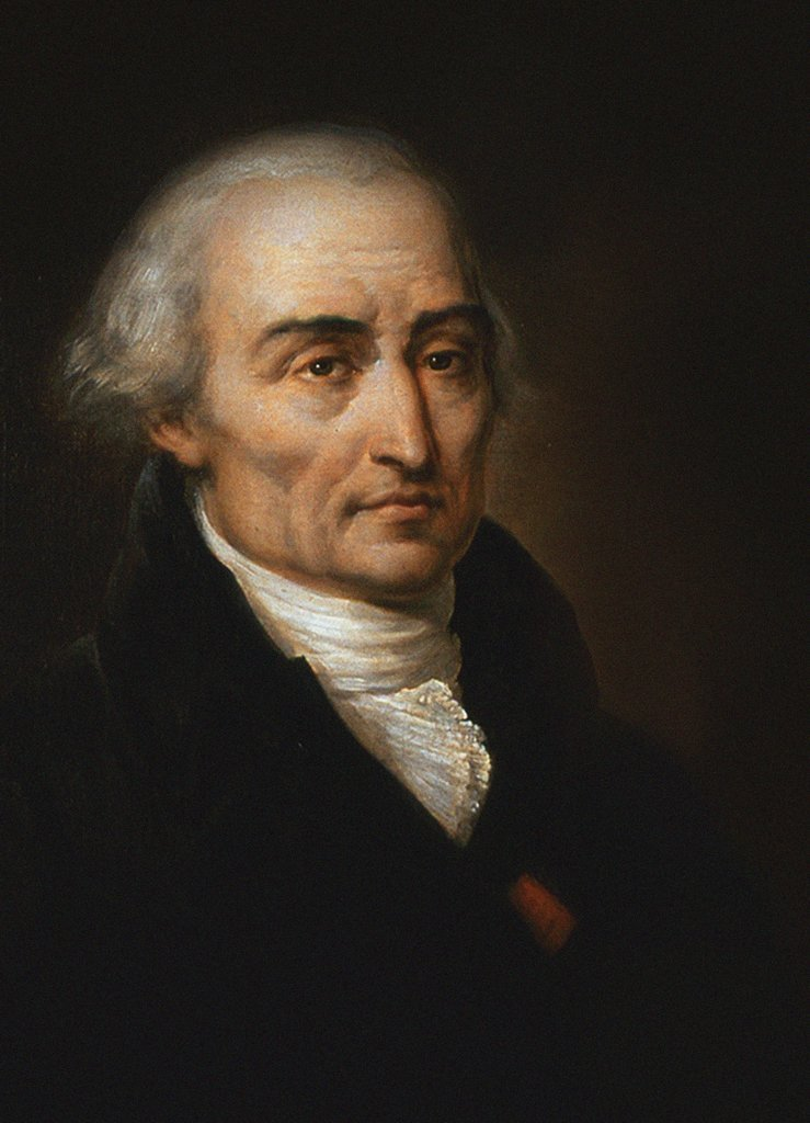 Joseph-Louis Lagrange (25 January 1736 – 10 April 1813)